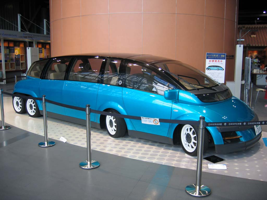 Zero emission Electric vehicle "Kaz", at National Museum of Emerging Science and Innovation on 30 sep 2004, was developed by Keio University in Japan. This vehicle can run at 310km/h. 時速310kmで走れる電気自動車Kaz。日本科学未来館での展示。2004年9月30日撮影。慶応大学 環境情報学部 電気自動車研究室 開発。